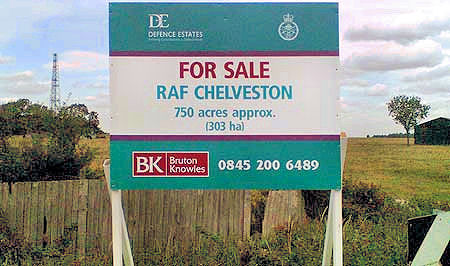 Sign offering sale of former USAAF/USAF/RAF base Chelveston, England.